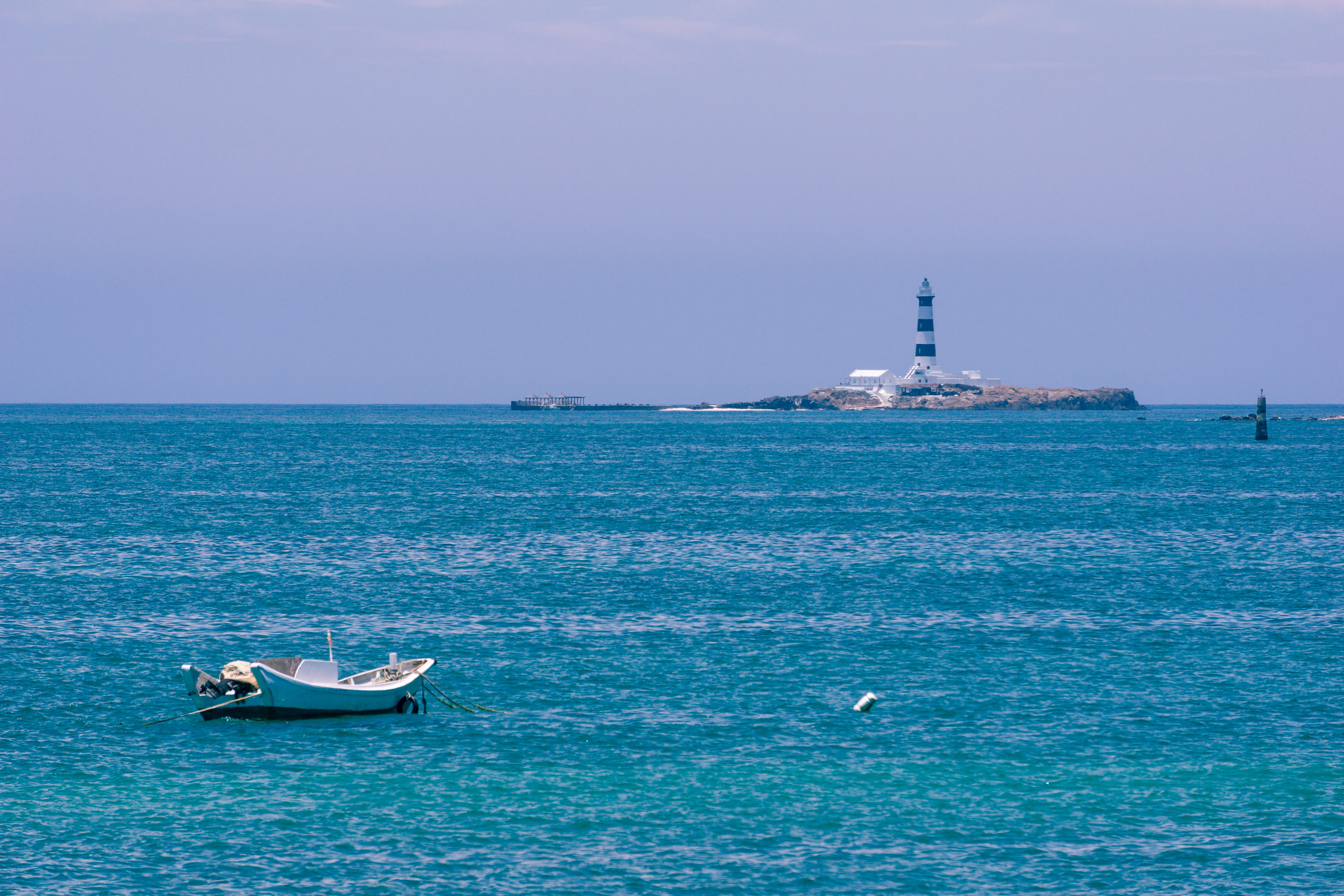 Mudouyu Lighthouse with boat.